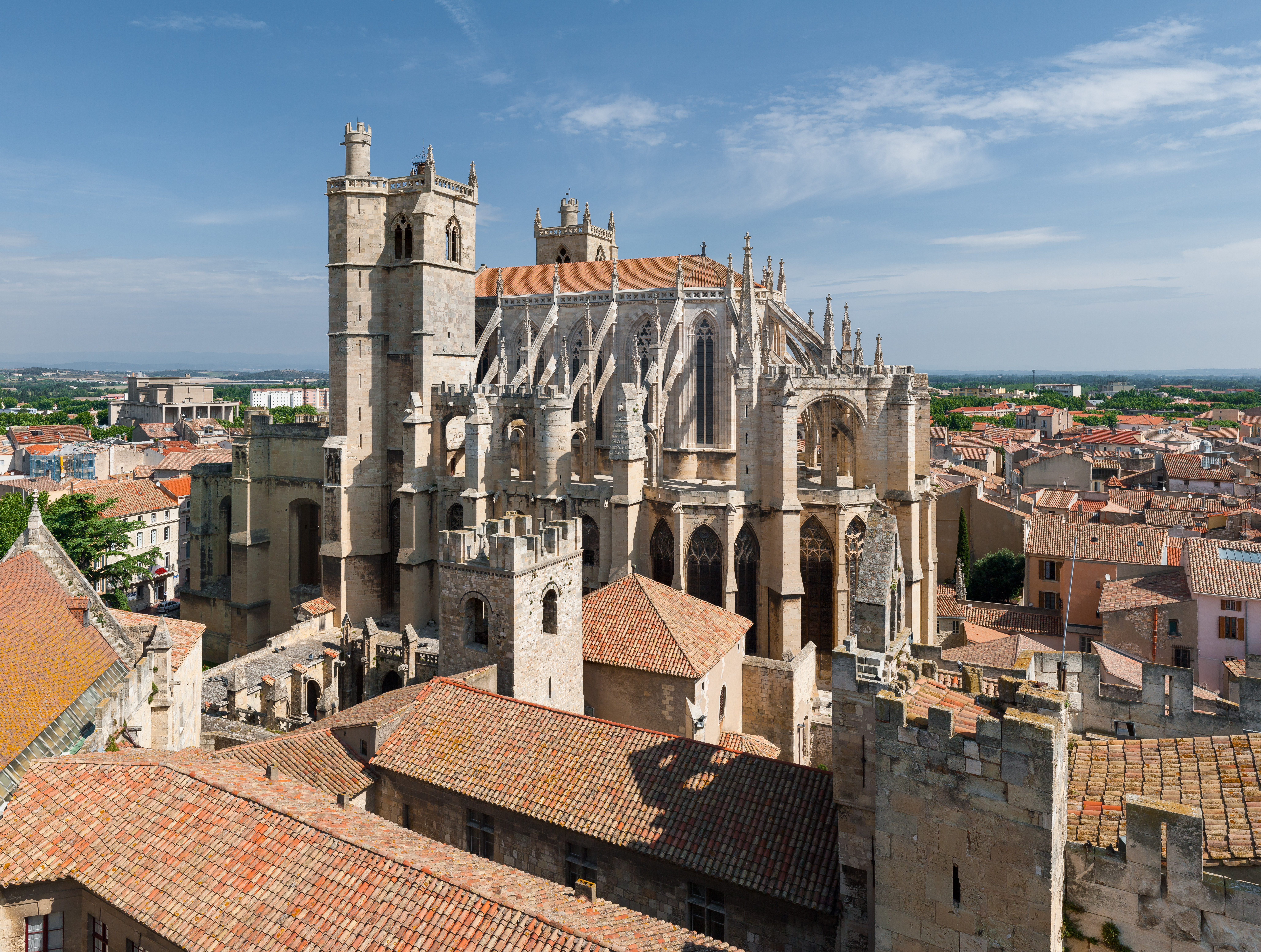 Saint-Just and Saint-Pasteur Cathedral, in Narbonne, south of France, seen from the Gilles Aycelin dungeon. This picture is a mosaic of 9 pictures (3x3), taken at 31mm on a 1.6 crop body, (50mm équiv.), f/8.0, 1/640s and ISO 100. Stitching was done with Hugin and Enblend. Resulting horizontal FOV is 90°.